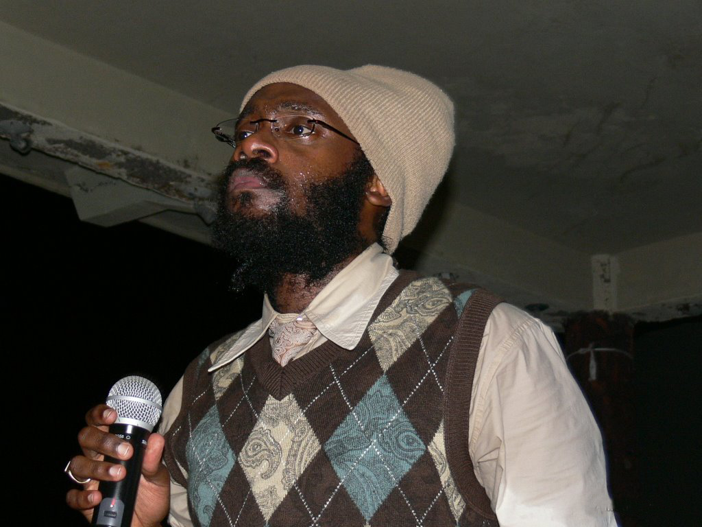 Tarrus Riley performs at Negril Escape Resorts